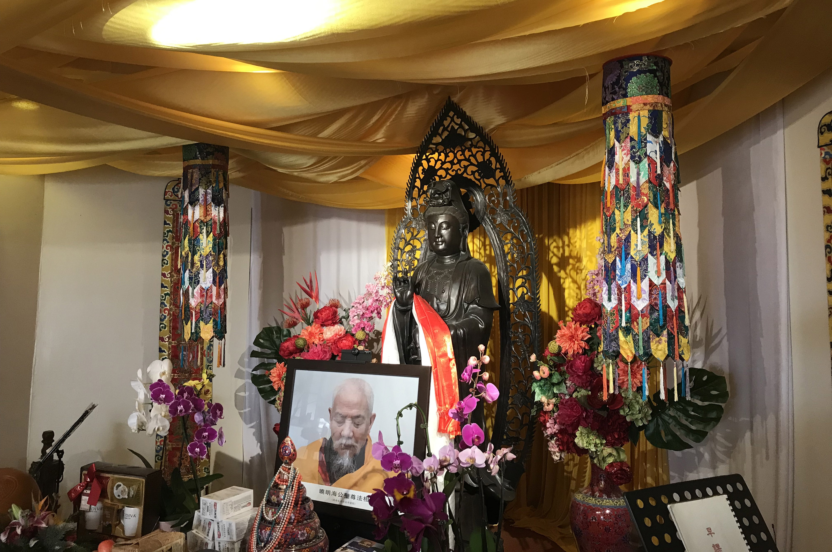 The Guan Yin Hall in Holy Miracles Temple, Pasadena, CA, with the visage of Holy Venerable Yin Hai worshiped before the statue of Guan Yin Bodhisattva.